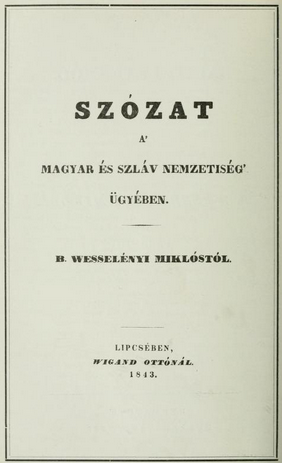 Wesselényi's book